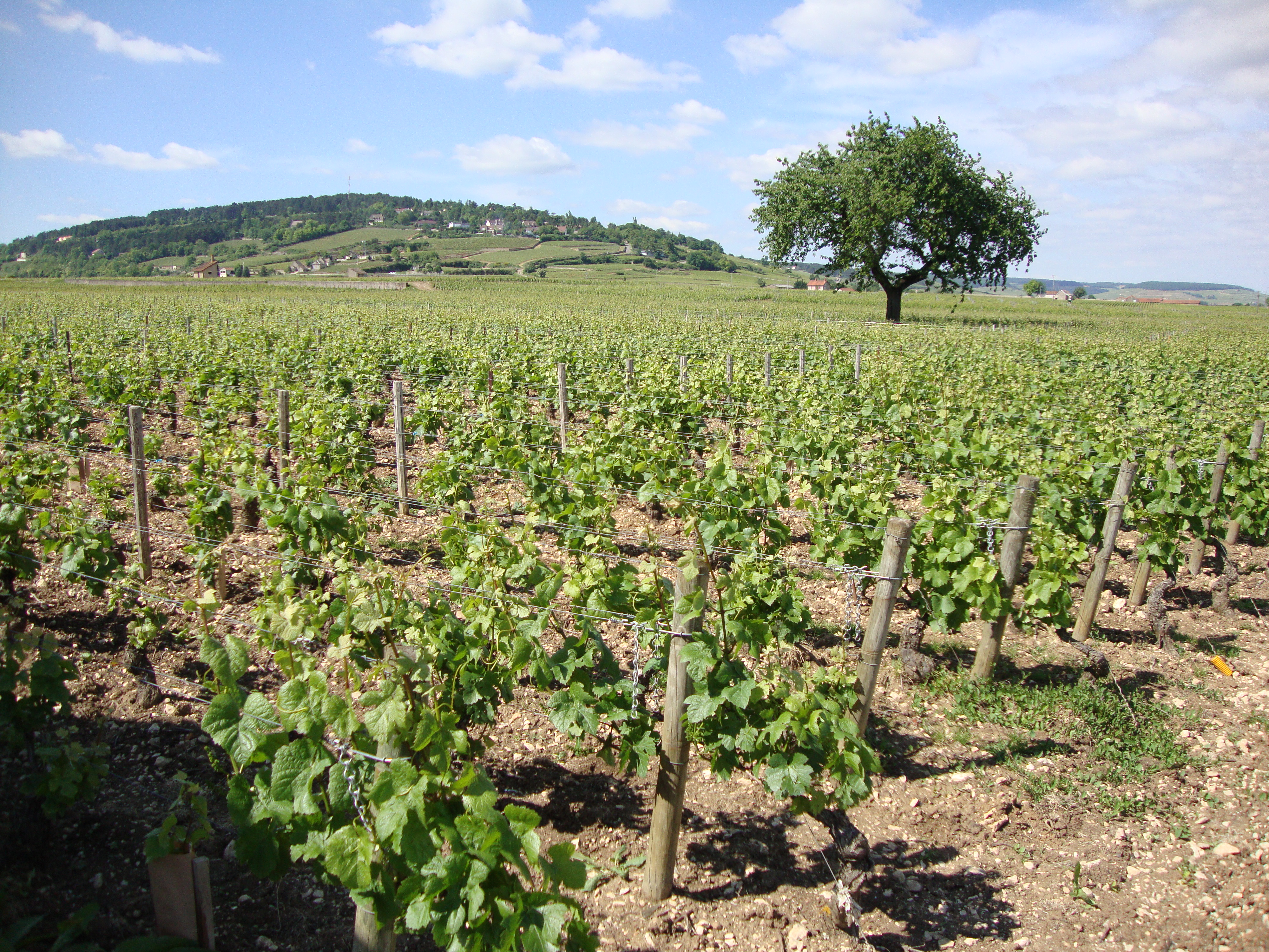 Beaune_(Côte_d'Or,_Fr)_vineyards.